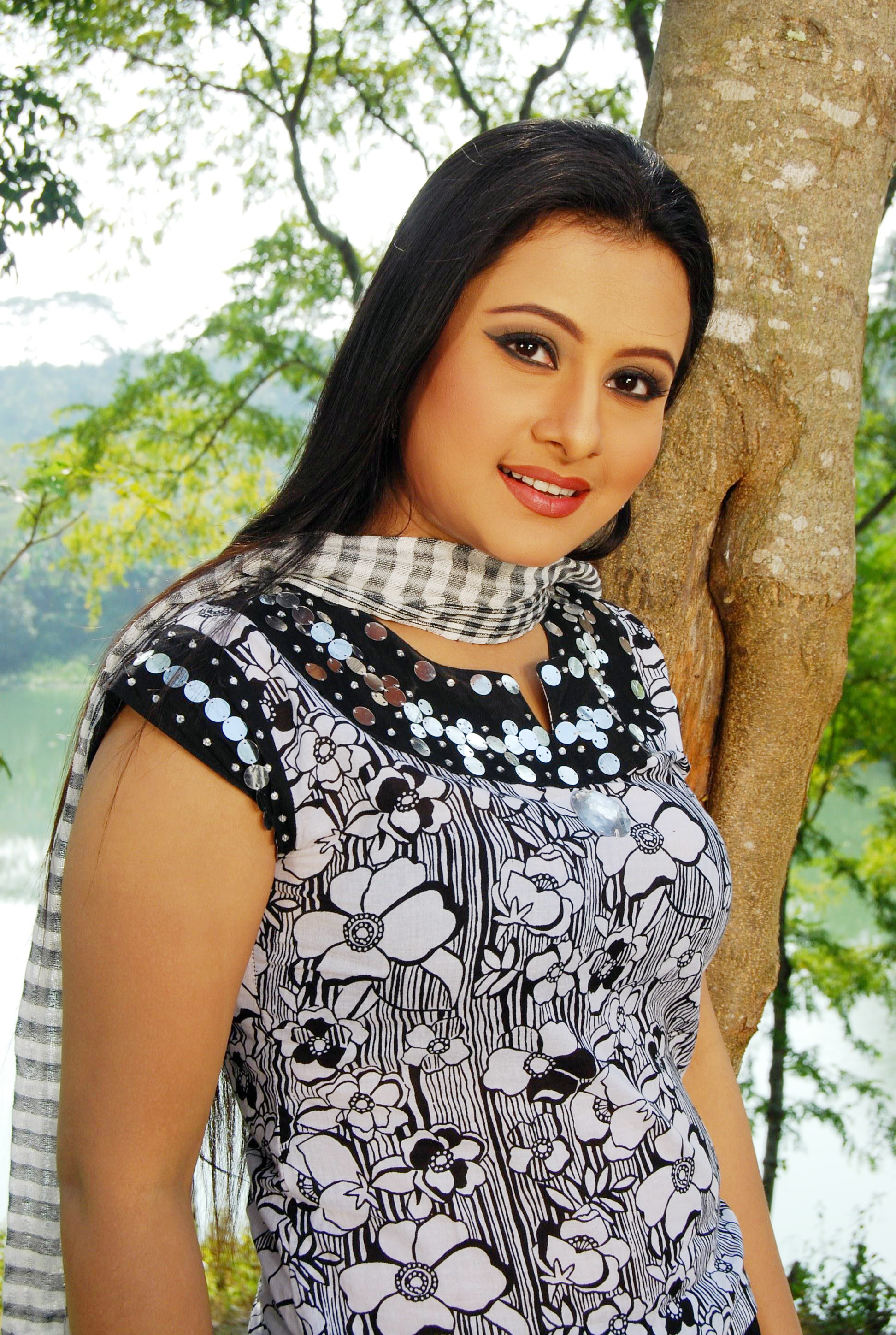 Bangladeshi film actress Purnima in beetwin the shooting in Rangamati Hill District at 2008